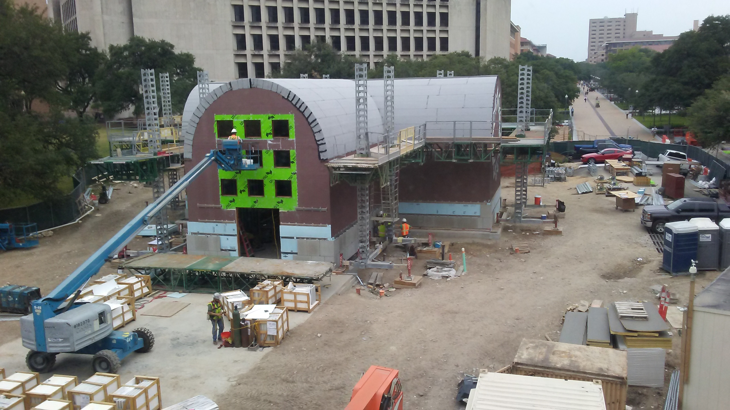 This is an image of the "Austin" building designed by artist Ellsworth Kelly, under construction. It is part of the Blanton Museum at the University of Texas at Austin. Taken in May, 2017, by Steven Saylor.